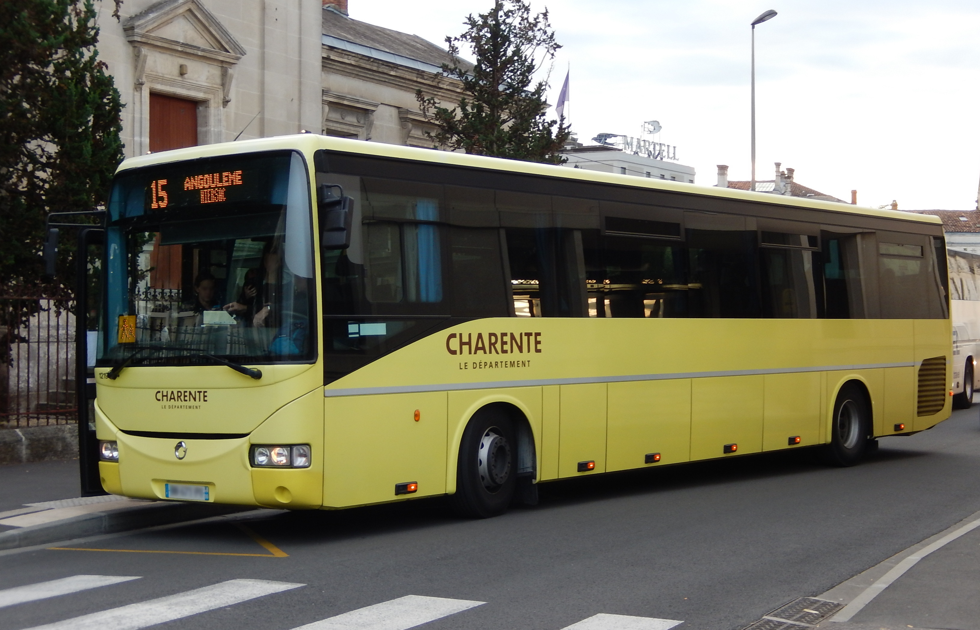 Un Irisbus Crossway 12,8M à Cognac, au départ de la ligne 15 (vers Hiersac et Angoulême) du réseau départemental d'autocars de Charente.